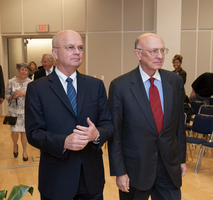 Former Directors of the CIA Gen. Michael Hayden (Ret.) and R. James Woolsey attend the “Intelligence, Policy and Politics: The DCI, White House and Congress” conference hosted by the CIA and the George Mason University School of Public Policy. This event marked the release of historical documents from the first four Directors of Central Intelligence. For more information on CIA, visit (Photo by Alexis Glenn/George Mason University)